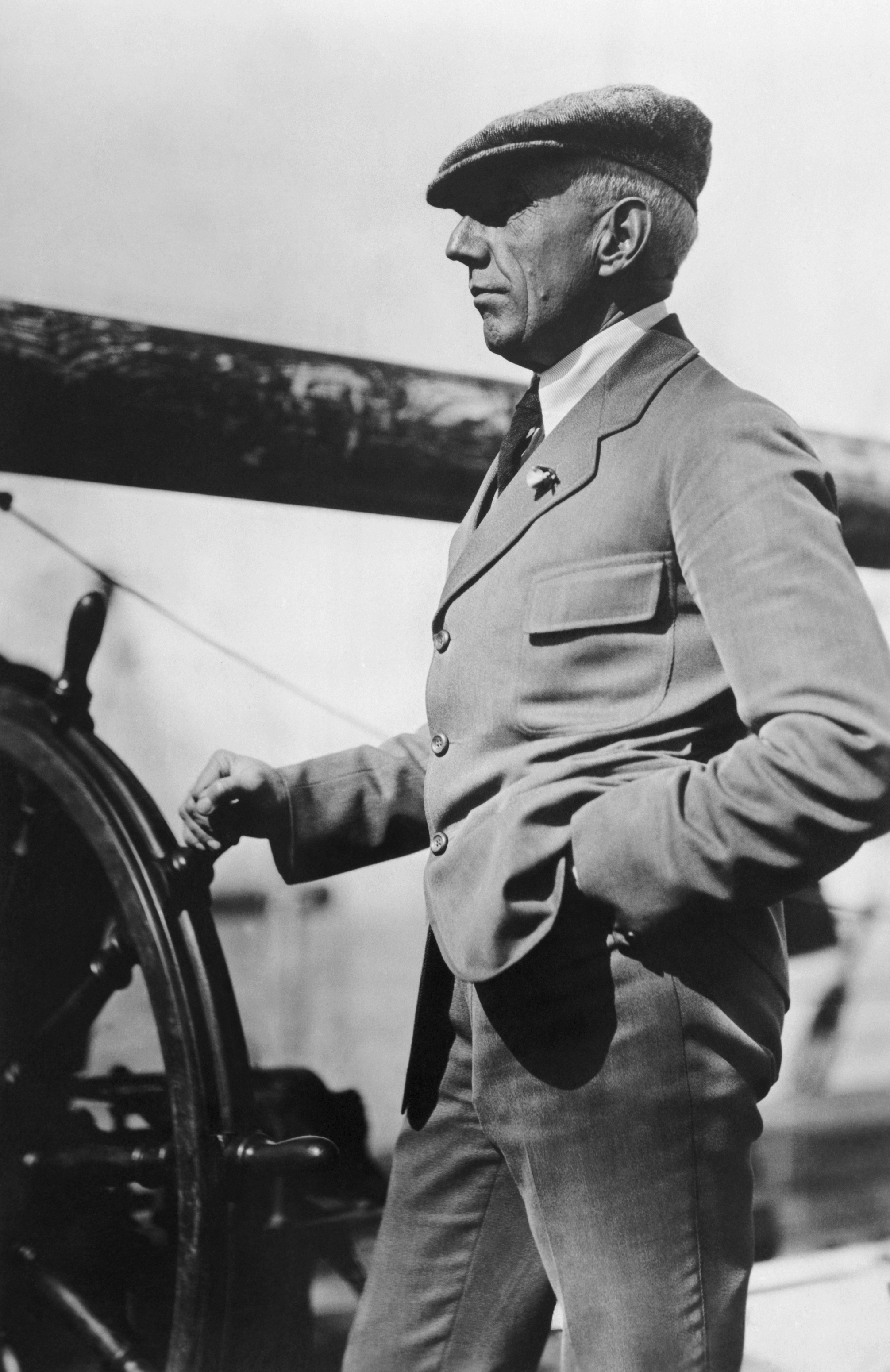 "Capt. Roald Amundsen at wheel leaving home for North Pole", photographic print